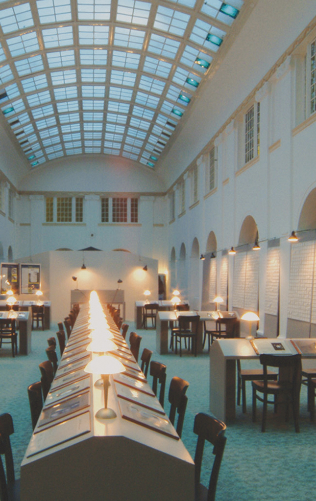 Exhibition hall in the Rathaus Schöneberg (Schöneberg town hall) showing the permanent exhibition 'We were Neighbours once - Biographies of Jews in Schöneberg and Tempelhof under the Nazi regime'